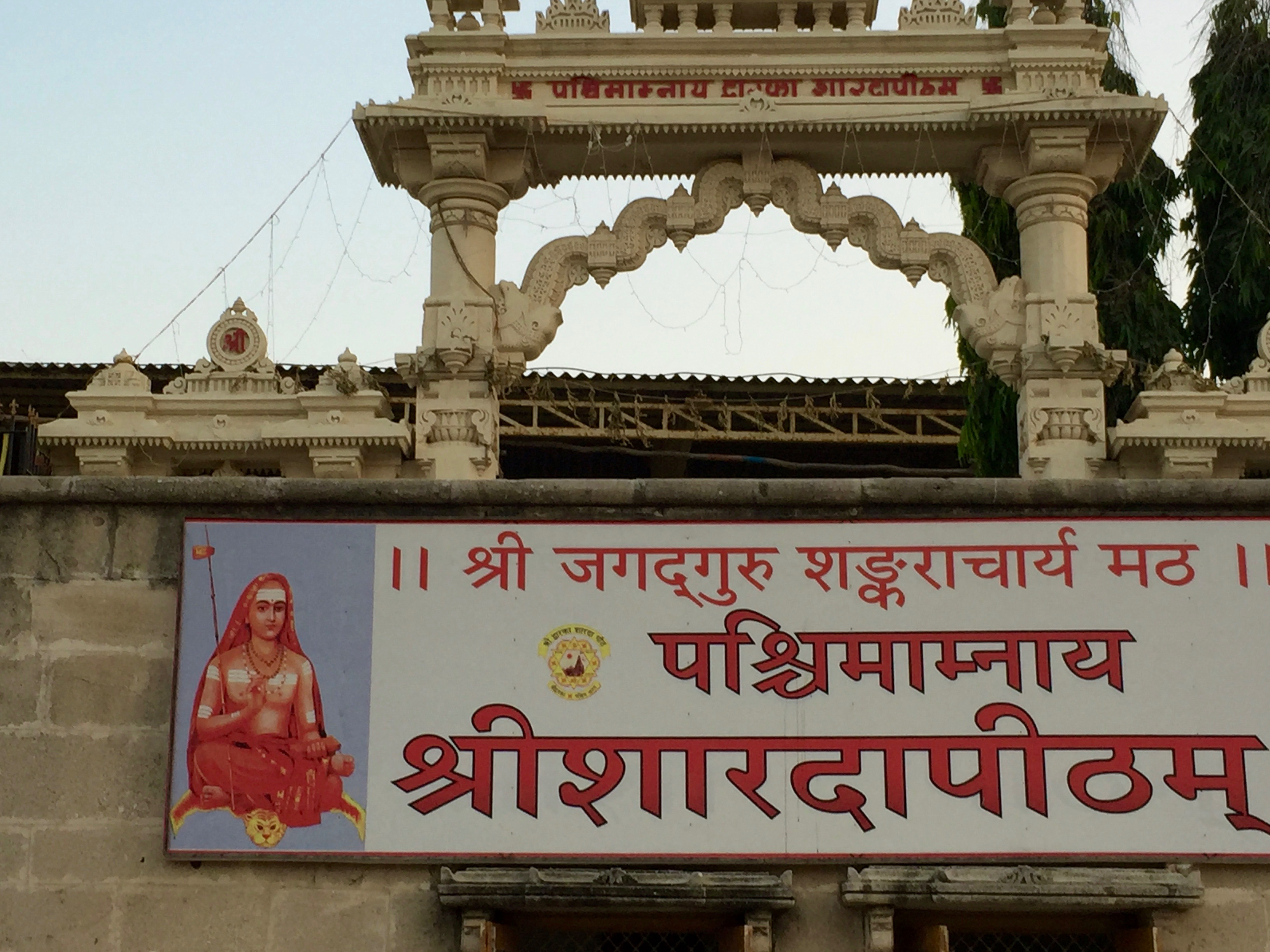 Shri Sharada Peetham Dwarka, the temple features five deities to be same as Shiva, some reliefs show fused images of deities such as Shivhari, which is half Shiva half Vishnu. The temple also features an extensive library dedicated to the works of Adi Shankara.